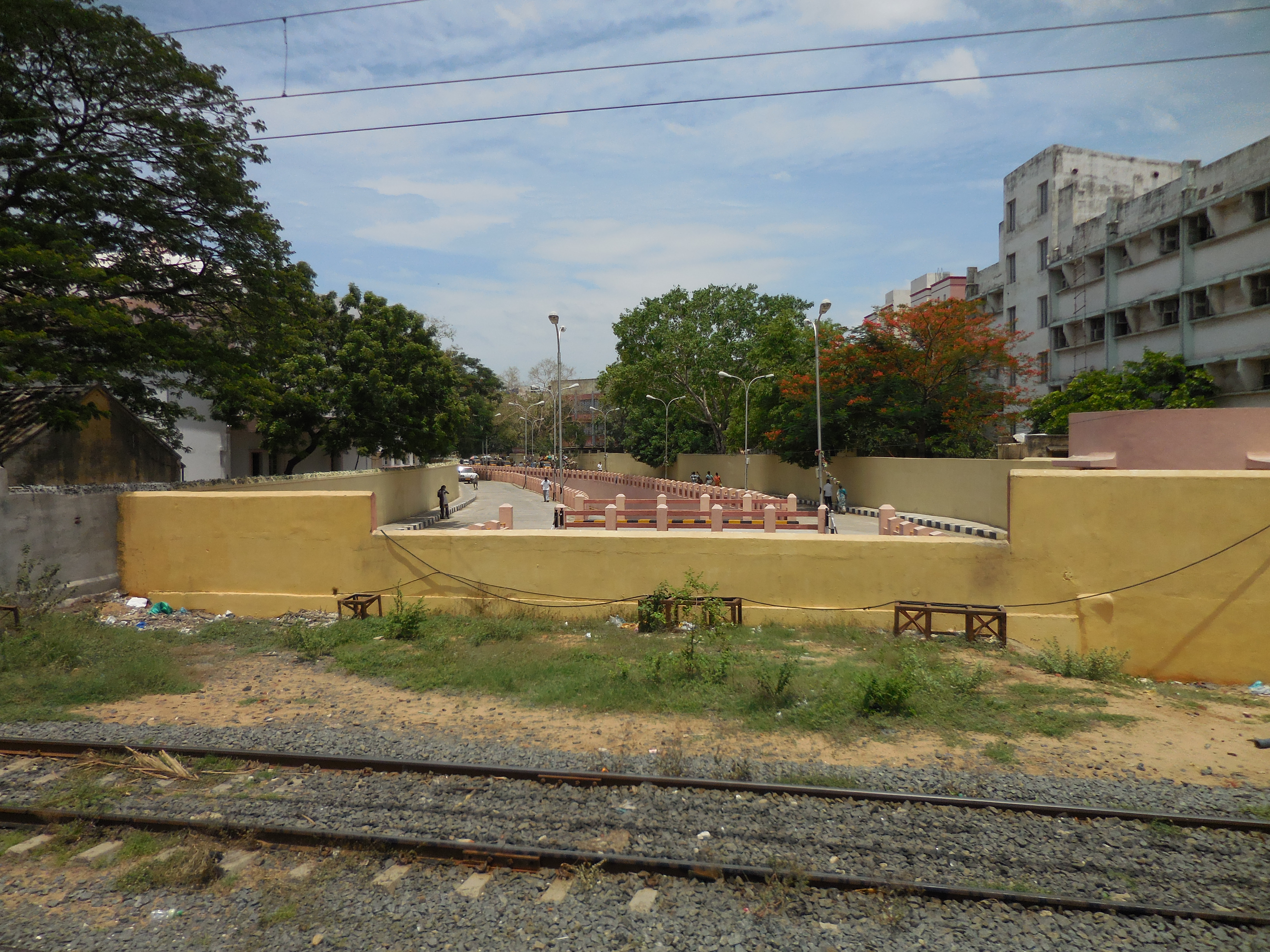 Vihicular subway near Washermanpet railway station, Chennai, taken on 15 July 2014 at noon.